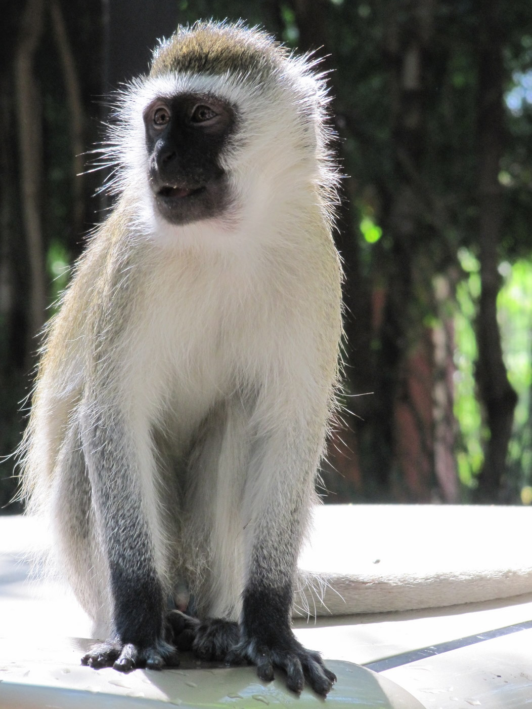 Vervet Monkey in Amboseli National Park, Kenya